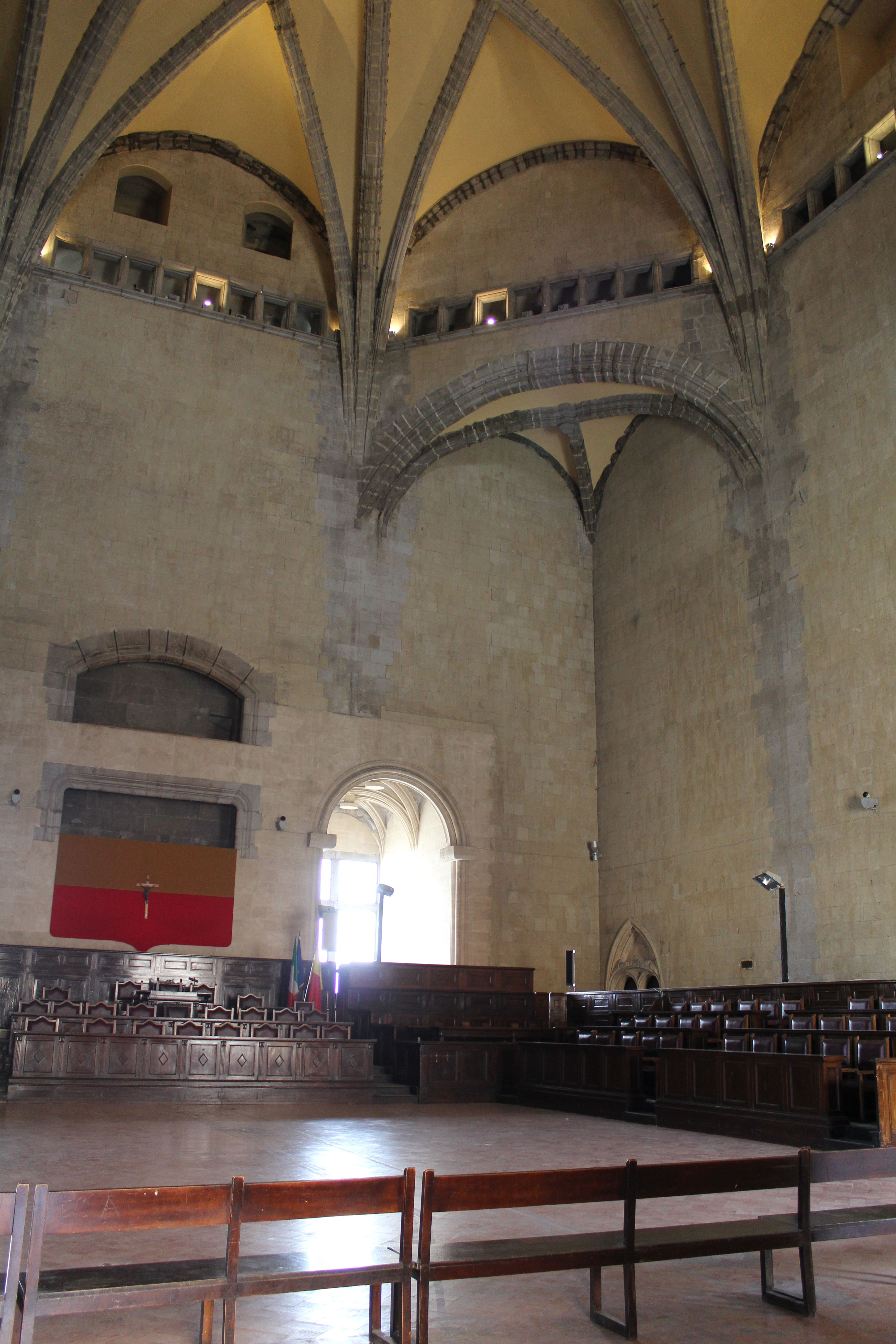 Castel Nuovo (23) This file was generated using WMUK's equipment.